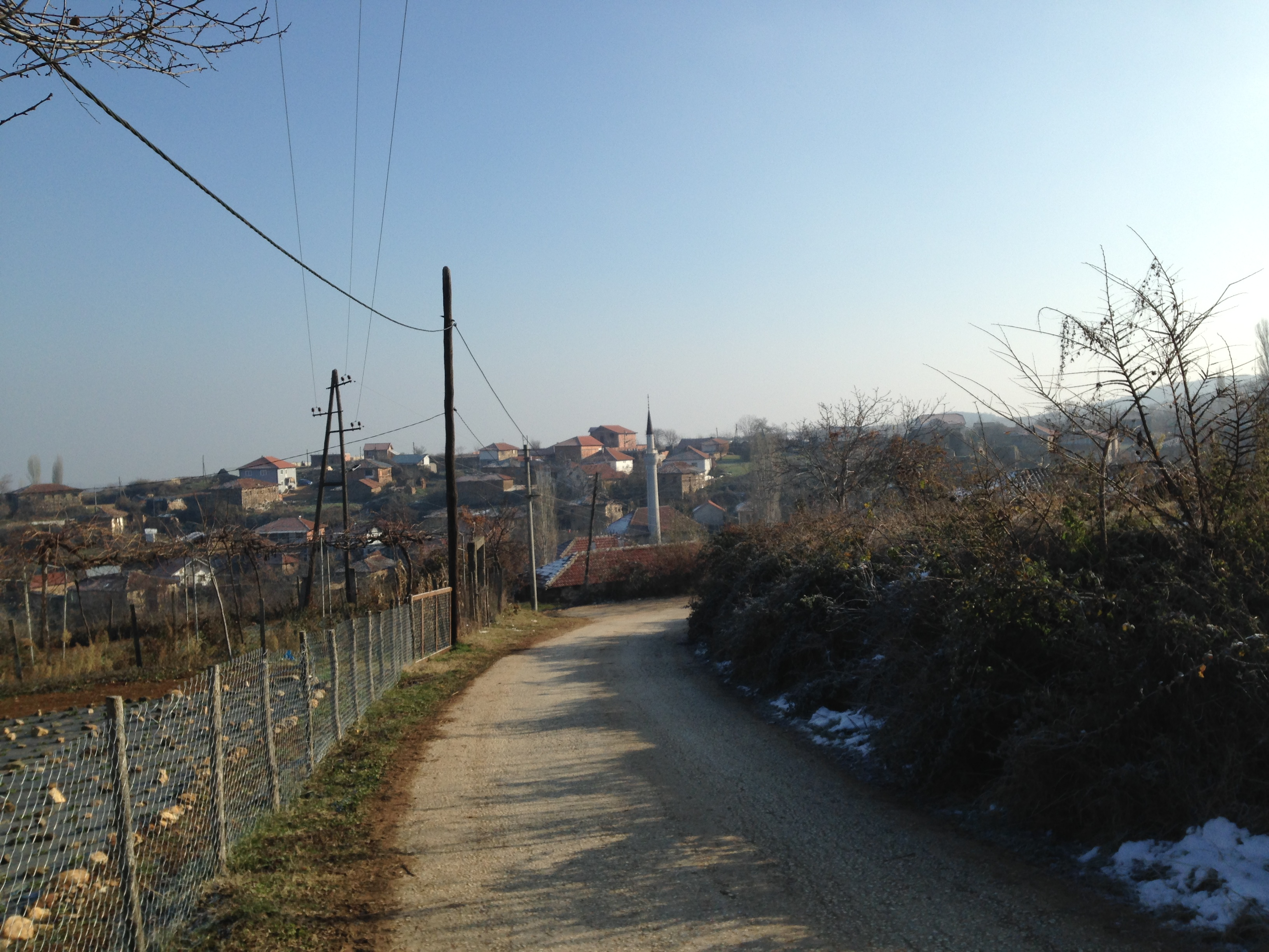 village of Vrtekica, near Skopje, Macedonia